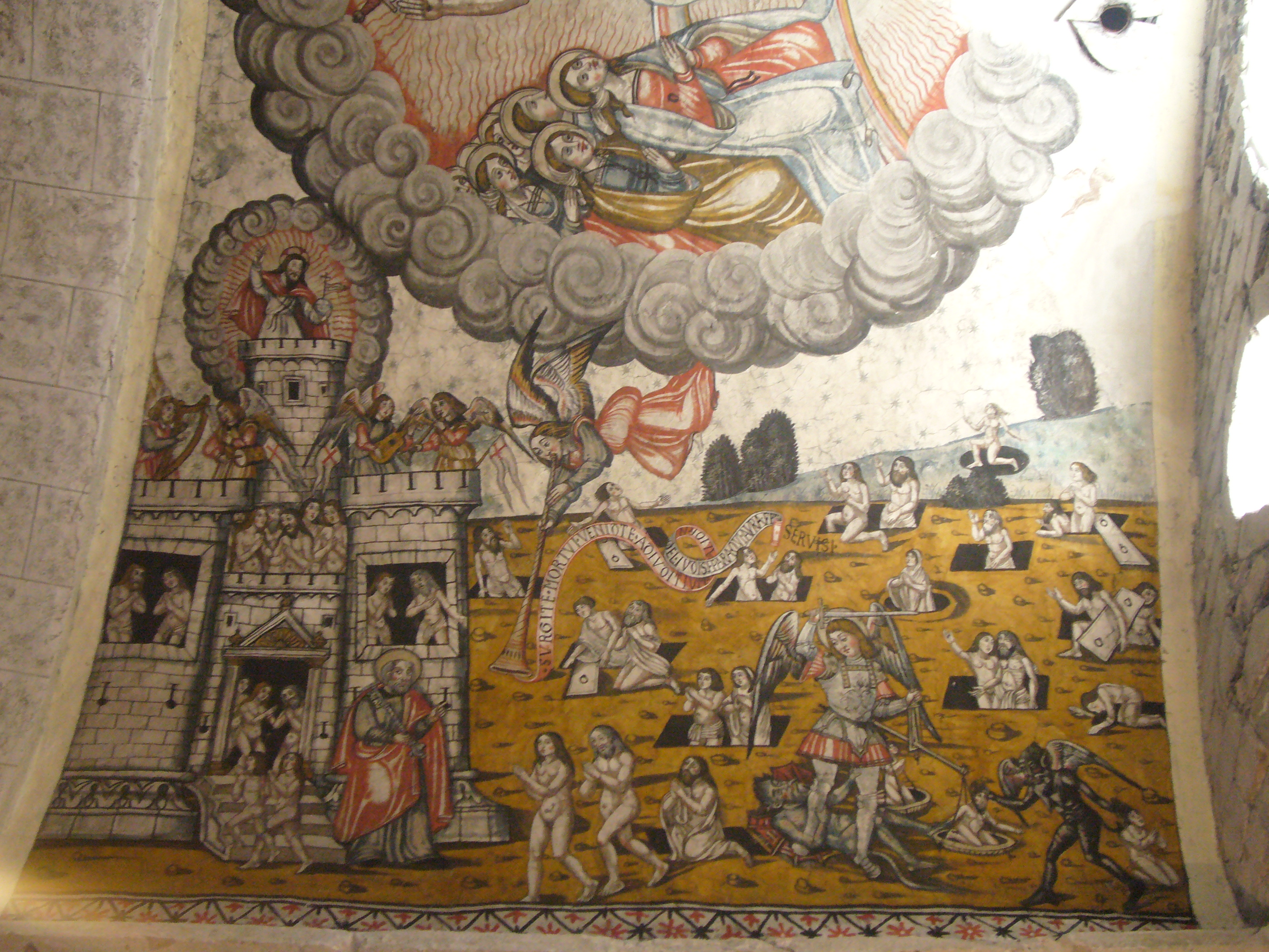 Interior of Santa Maria d'Arties - Fresco of the Last Judgment - Saved souls go to heaven